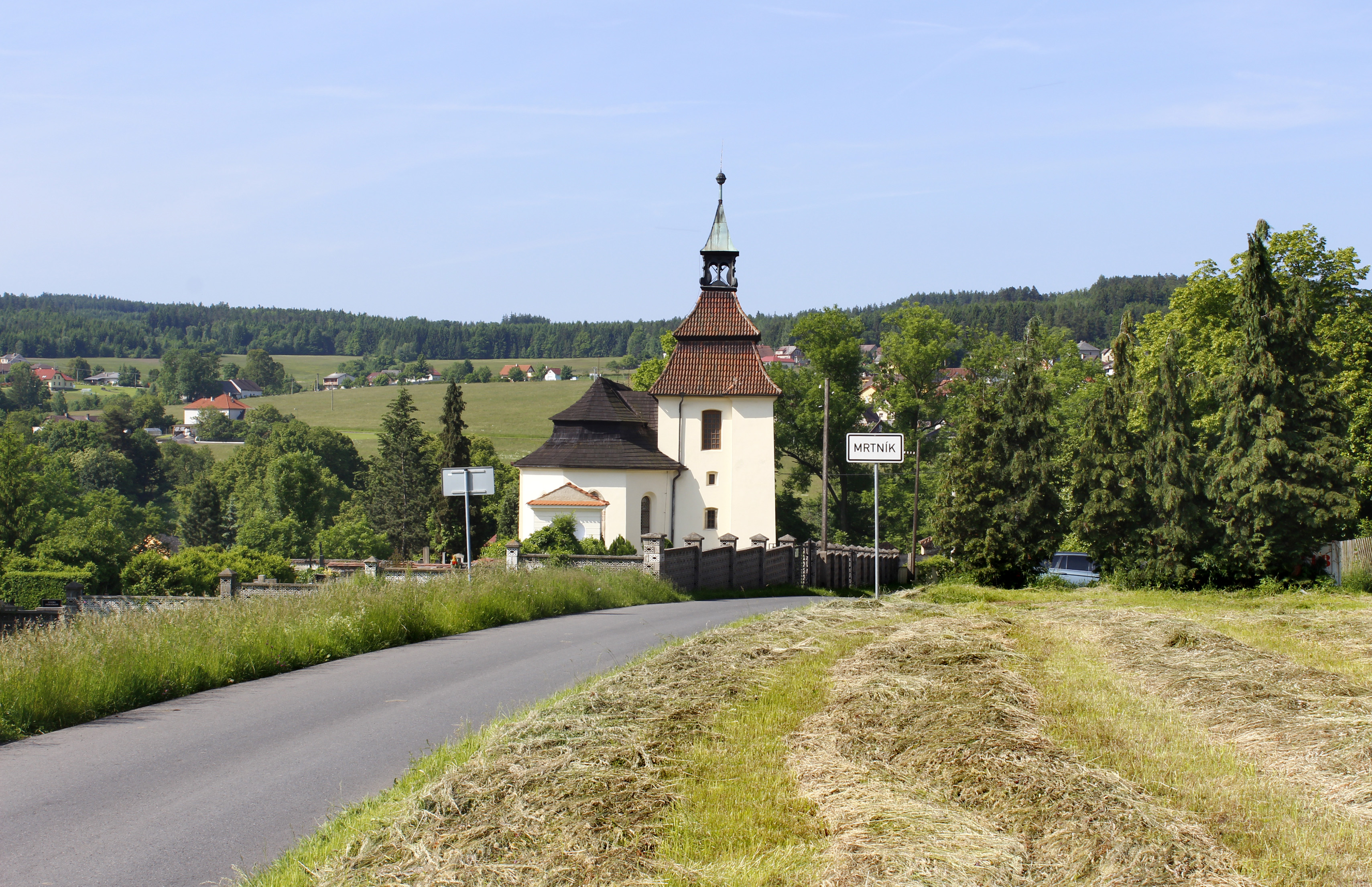 Church of the Nativity of the Virgin Mary in Mrtník, part of Hvozdec, Czech Republic